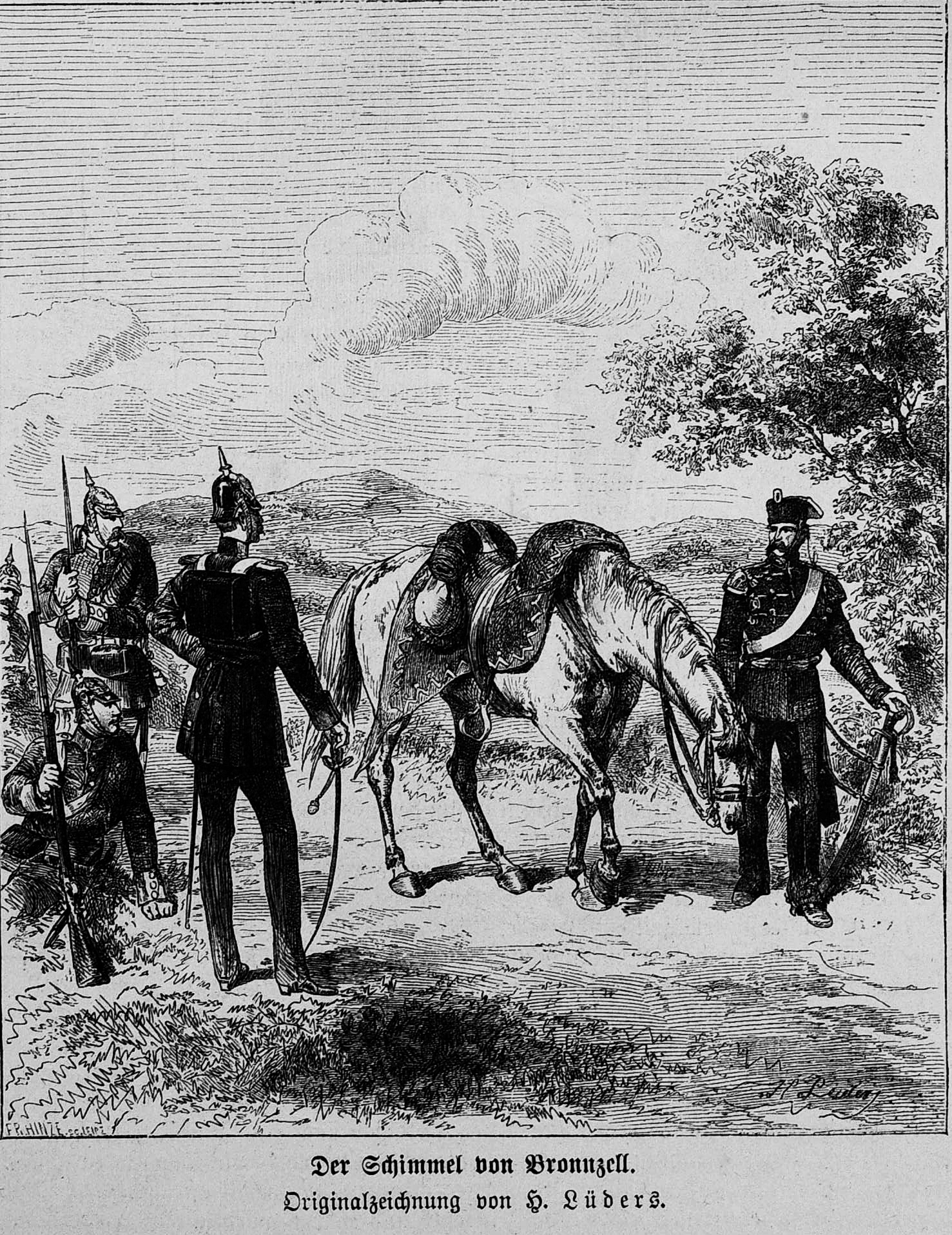 caption: "Der Schimmel von Bronnzell.Originalzeichnung von H. Lüders."